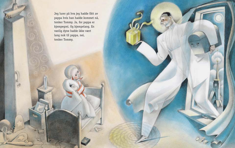 Spread from Norwegian children's picture book Pappa! (Daddy!) with text and illustrations by Svein Nyhus. First published by Norwegian publishing house Gyldendal Tiden 1998. Original drawing made with pencils and erasers on water colour.